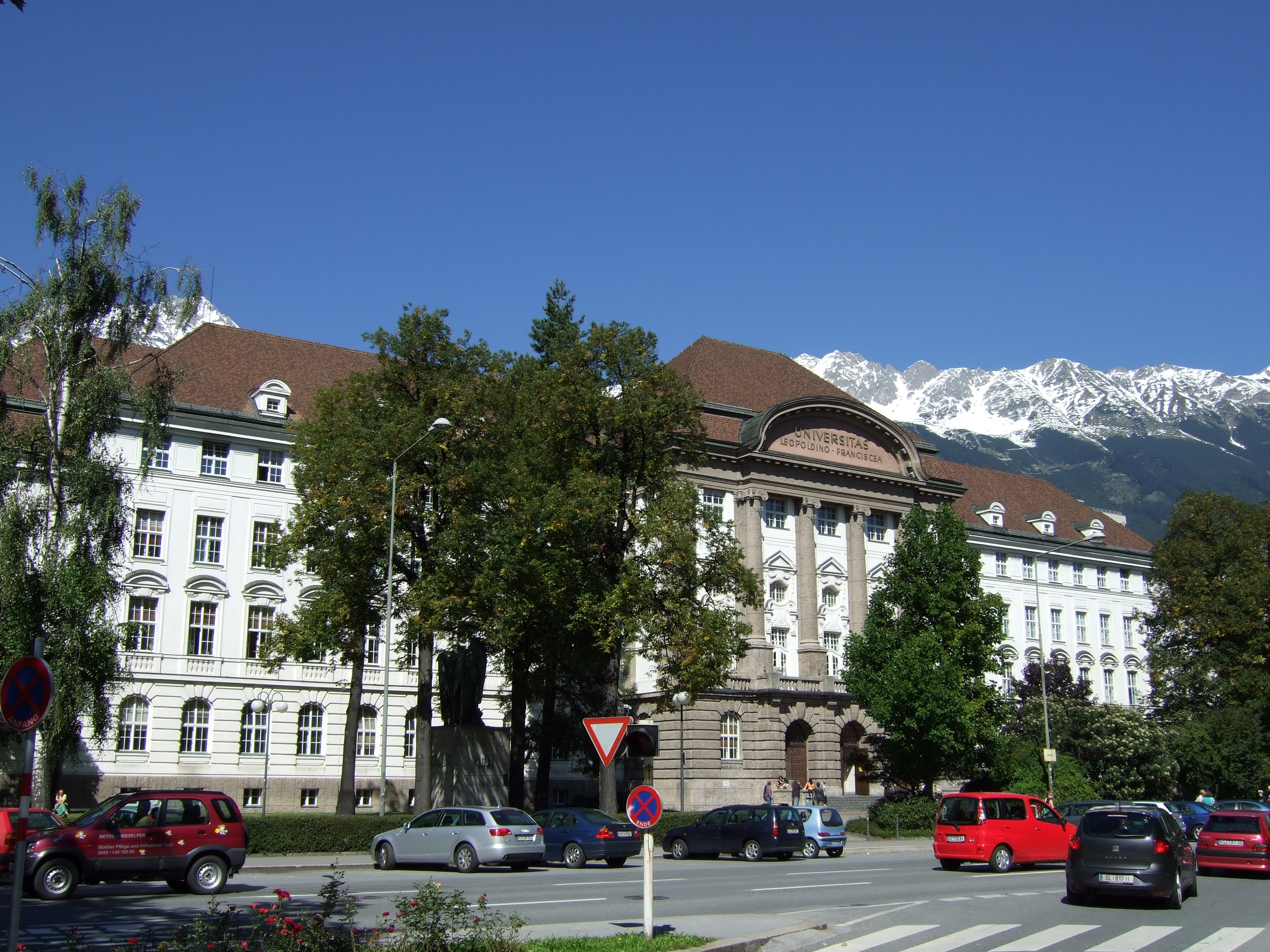 Main building of University Innsbruck.